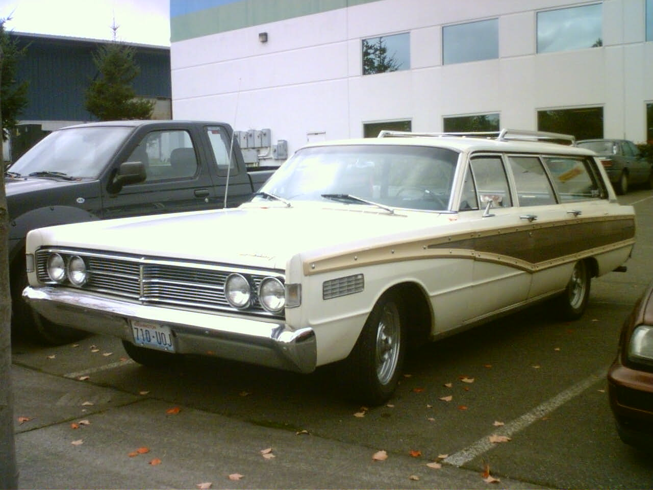 1966 Mercury Colony Park station wagon